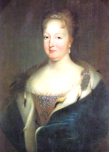 Portrait of Christine Wilhelmine of Hesse-Homburg (1653-1722), Duchess of Mecklenburg-Grabow